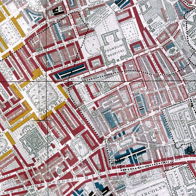 1889 map of Bloomsbury in London, from Charles Booth's Descriptive map of London poverty, 1889 (north - western sheet)